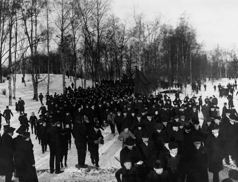 Helsinki Red Guards members at the Kaisaniemi park.